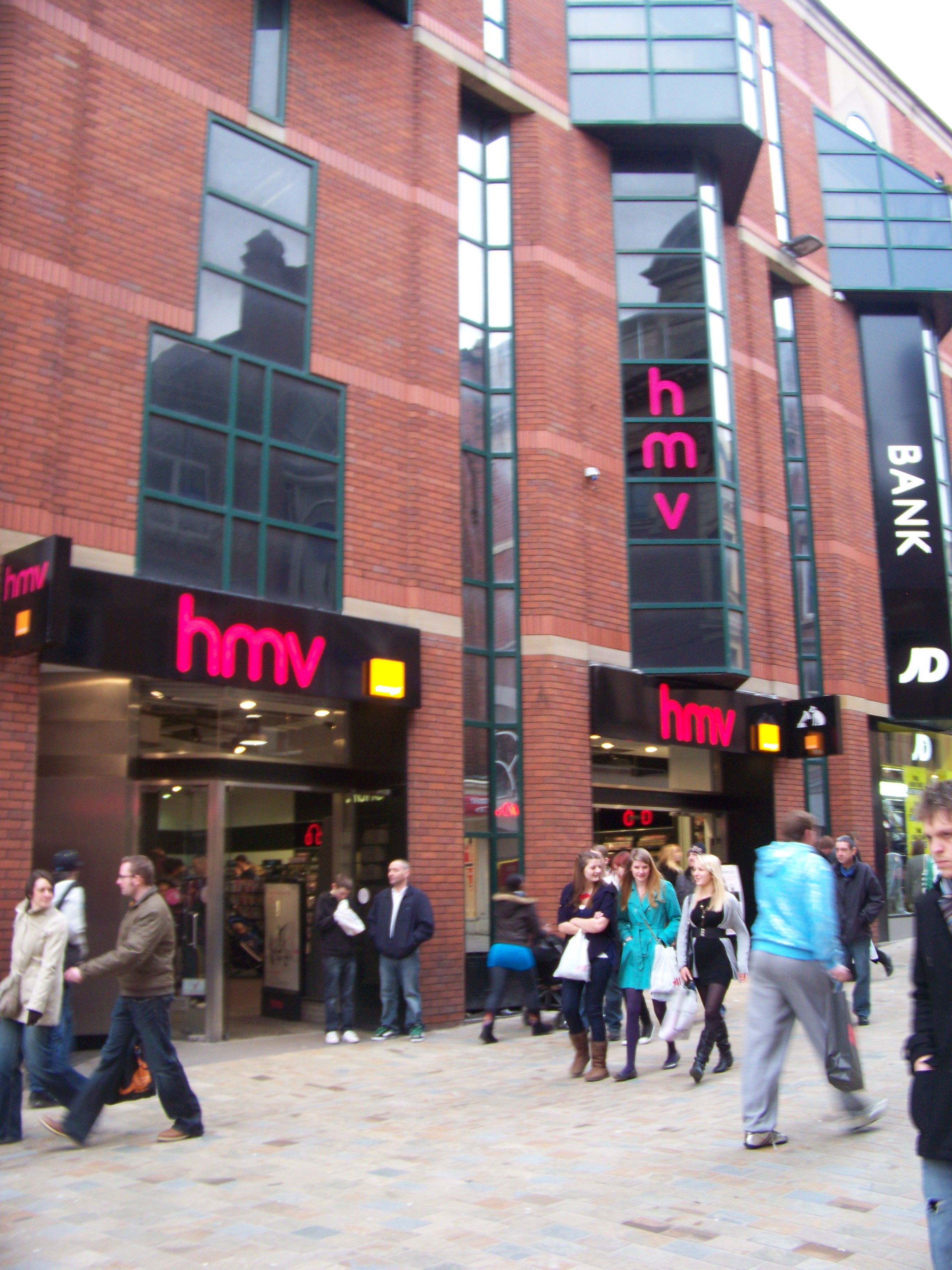 HMV, The Core, Lands Lane, Leeds. Taken on the afternoon of Saturday the 23rd of January 2010.